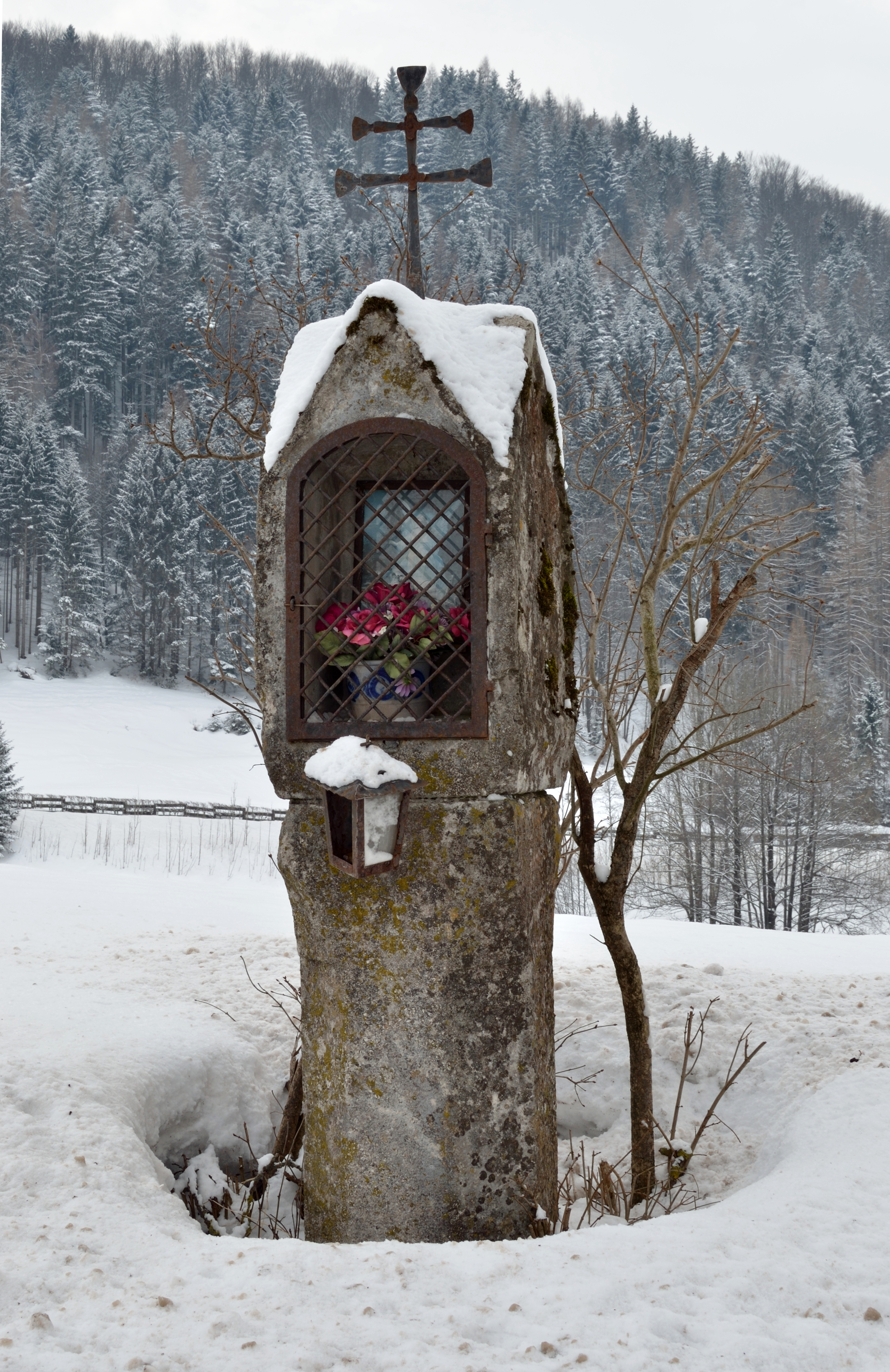 Wayside shrine in Edlbach, Upper Austria.